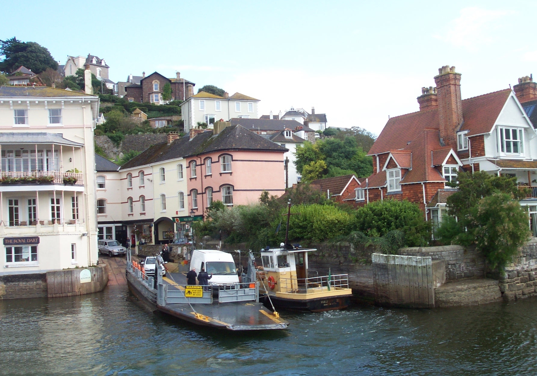 The Dartmouth Lower Ferry at its Kingswear slip. For more information, see the Wikipedia article Dartmouth Lower Ferry.